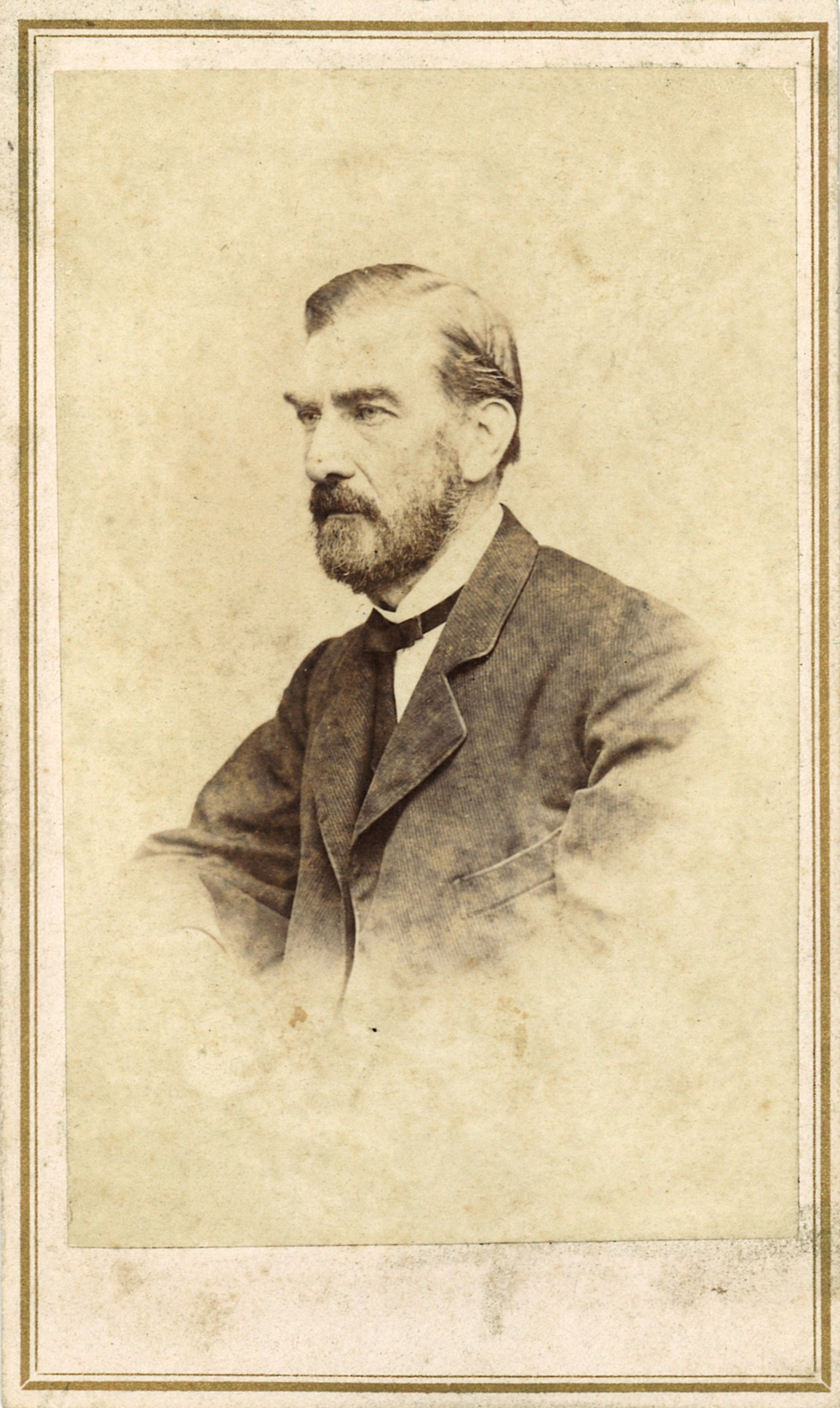 Ernst Nepomuk Krackowizer (1821–1875), Austrian revolutionist and surgeon, living in New York since 1850. Description on back side of photography: 'Ernest Nepom. Krackowizer, Med. u Chir. Doctor in New-York, geb. 3/12.1821 in Spital am Pyhrn, getraut 11/5.1851 in New York mit Emilie Forster, gestorben 23. Septber 1875 in Sing-Sing.'